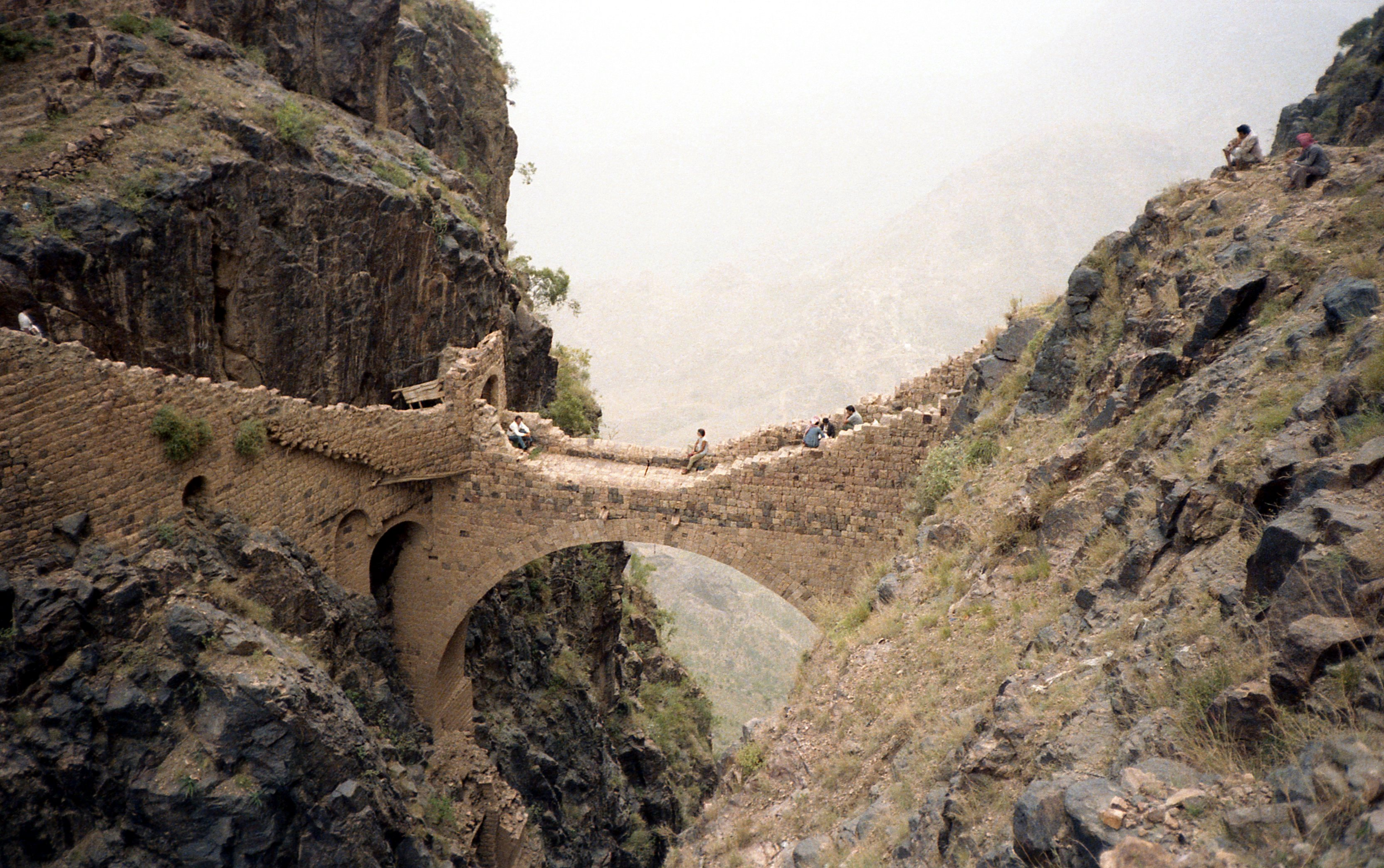 Footbridge in Shaharah, Yemen